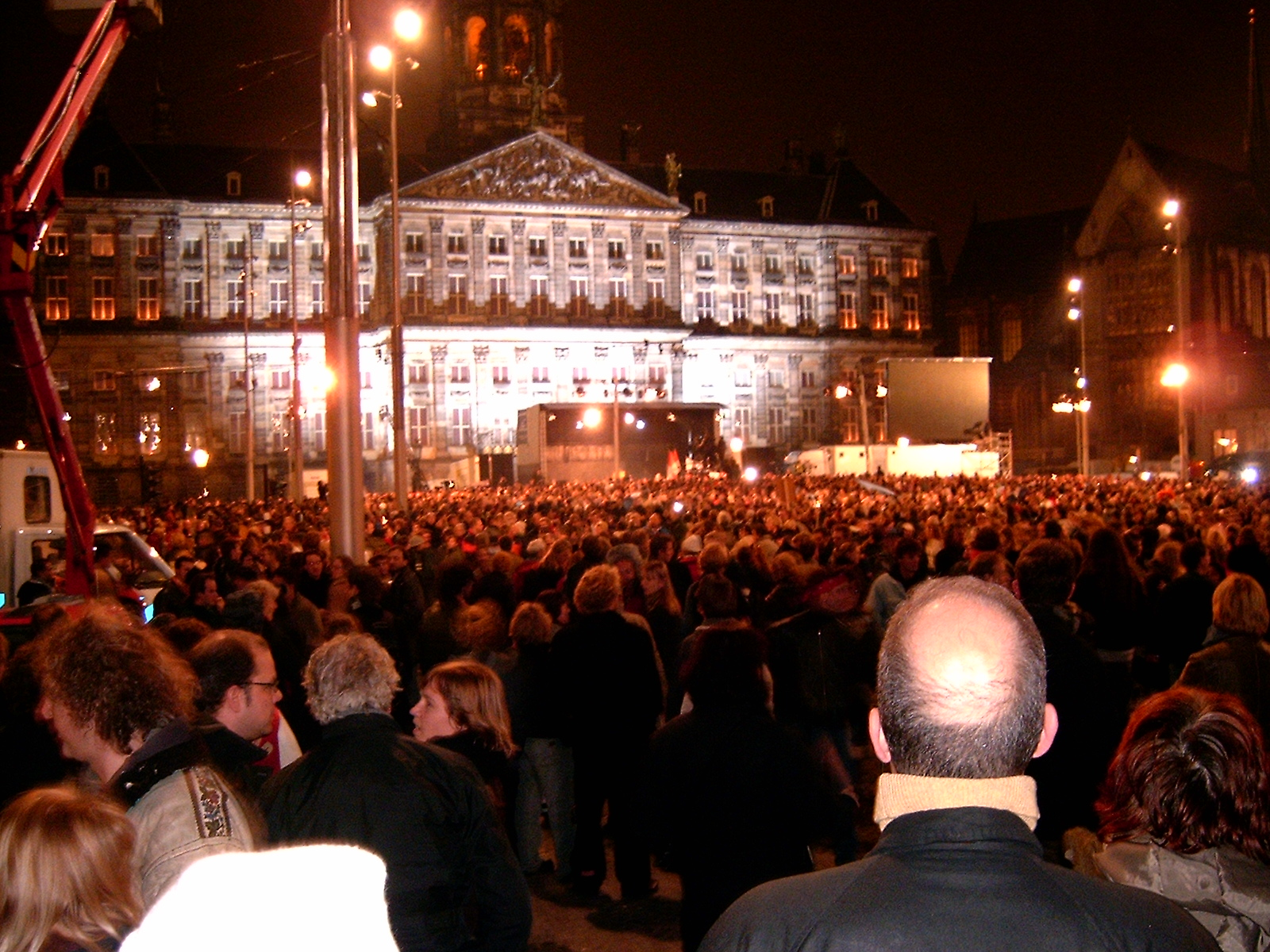 Demonstration on Dam Square in Amsterdam in November 2004, shortly after the murder of Theo van Gogh on November 2, 2004. In the background the Royal Palace Koninklijk Paleis Amsterdam.